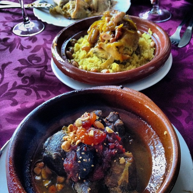 Couscous and kefta